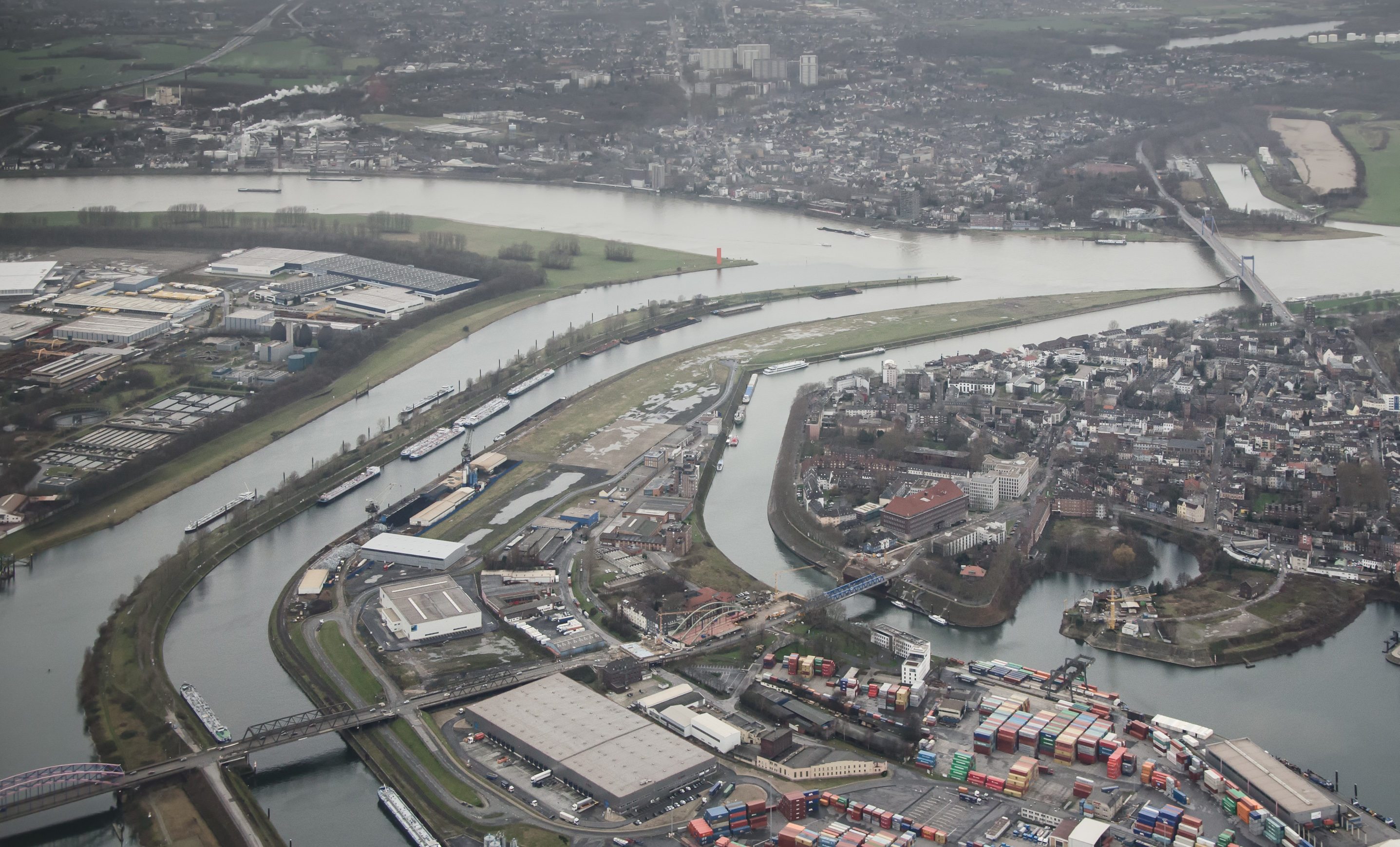 Aerial shot of mouth of the Ruhr (River) River at Duisburg-Ruhrort into the Rhine